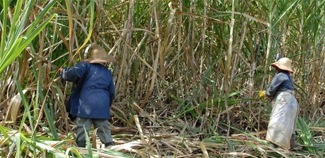 women working agriculture sector in africa. This is an image of "African people at work" from Mauritius